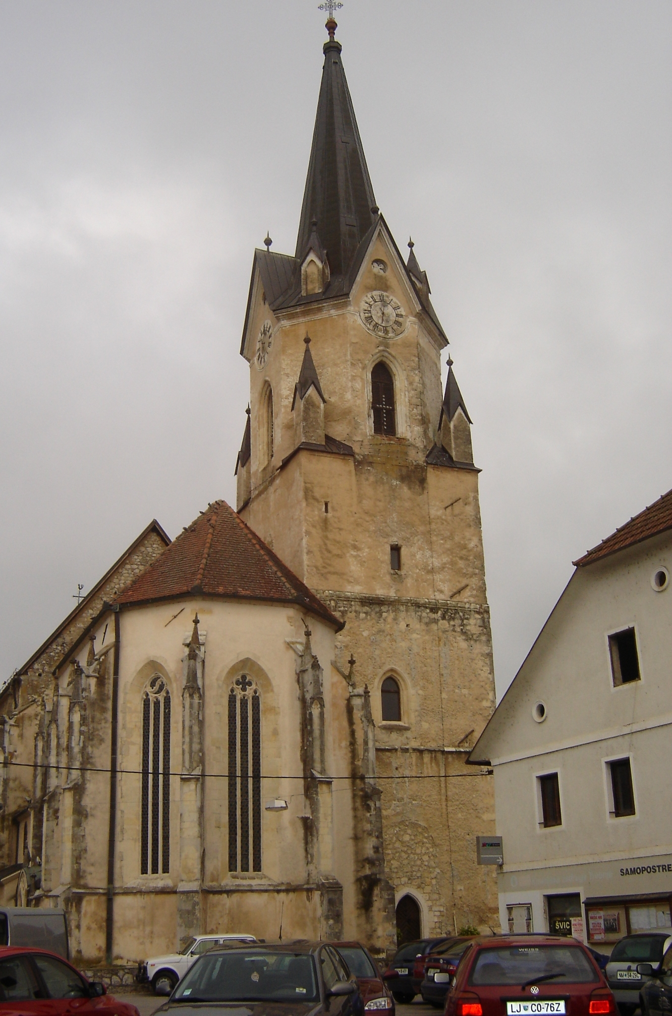 Church of Saint Rupert, Šentrupert/Cerkev sv. Ruperta, Šentrupert